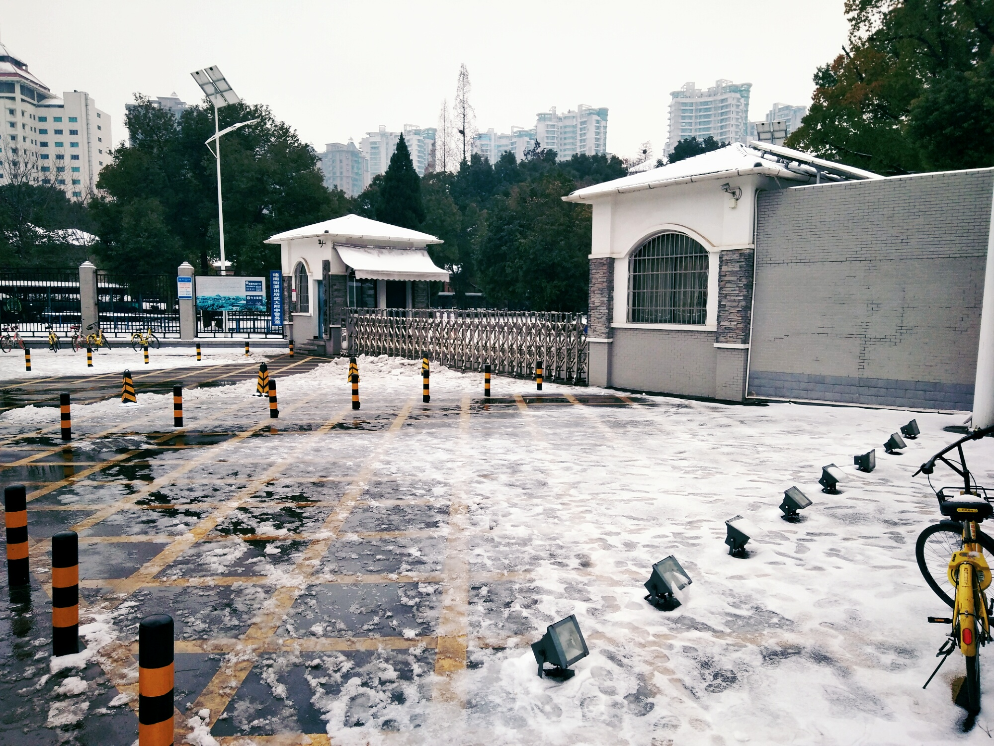 A snow day in winter of Wuhan, in front of the Middle School attached to Wuhan University.